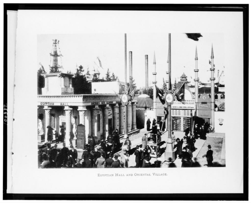 Title: Egyptian hall and Oriental village Abstract/medium: 1 photomechanical print : photogravure.